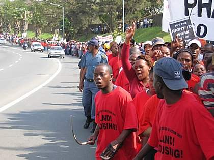 A protest by the Durban shack dwellers' organisation Abahlali baseMjondolo Own work. Copy left.